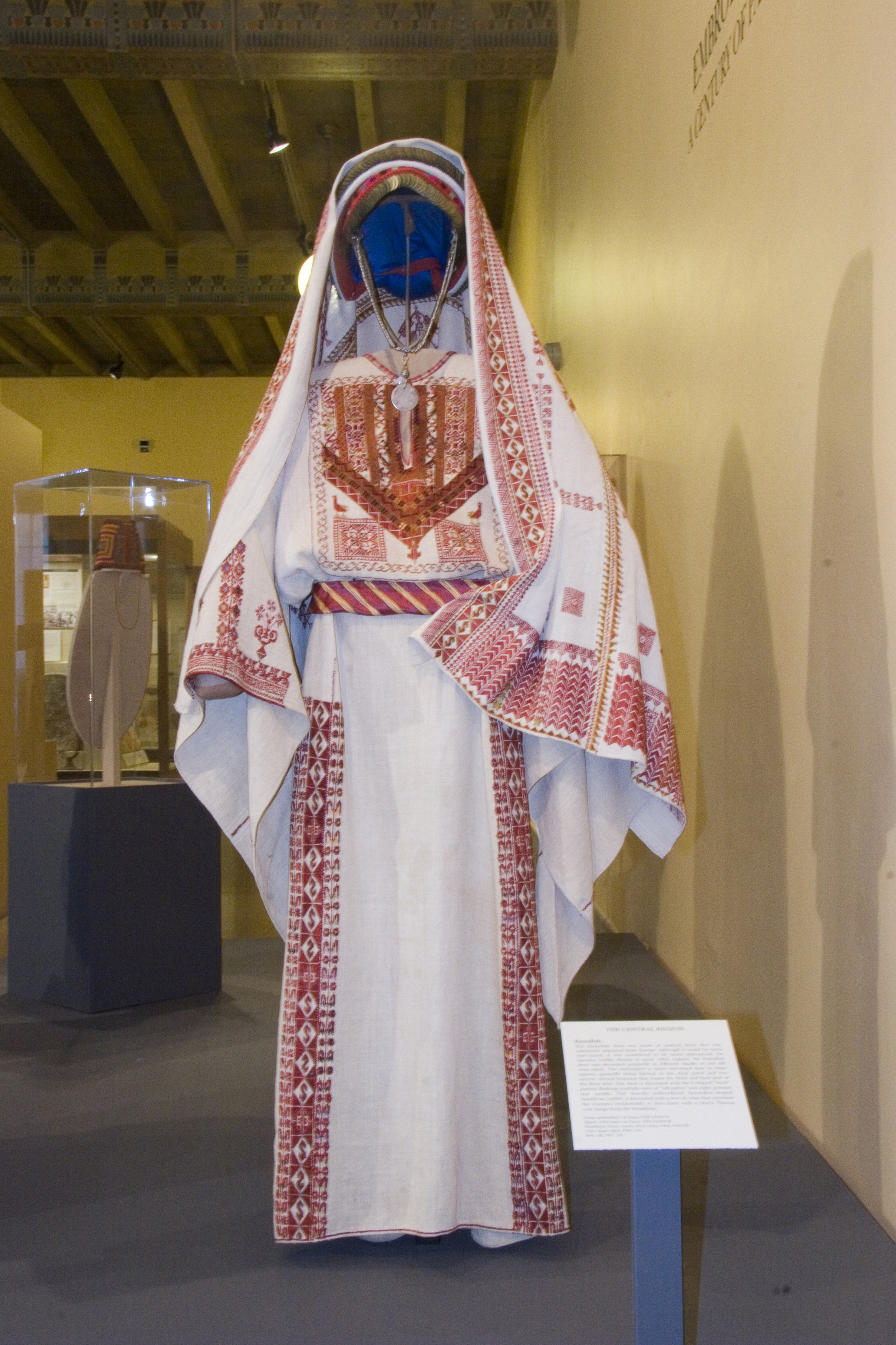 Photo of installation at the Oriental Institute Museum The Ramallah dress was made of undyed linen that was sometimes imported from Europe. Although it could be worn year-round, it was considered to be more appropriate for summer. Unlike dresses in most other regions, the Ramallah dress was decorated primarily in different shades of red silk cross-stitch. The embroidery is more restrained than in other regions, generally being limited to the chest panel and two narrow vertical branches that frame the front and back part of the dress skirt. The dress is decorated with the S-shaped “leech” pattern flanking multiple rows of “tall palms” and eight-pointed star motifs. The heavily embroidered horseshoe-shaped headdress (saffeh) is decorated with a row of coins that represent the woman’s bridewealth. A chin-chain with a Maria Theresa coin hangs from the headdress. Dress: embroidery on linen, OIM A35635A Shawl: embroidery on linen, OIM A35635B Headdress: linen, cotton, silver coins, OIM A35633E Chin-chain: silver, PHC 136 Belt: silk, PHC 201